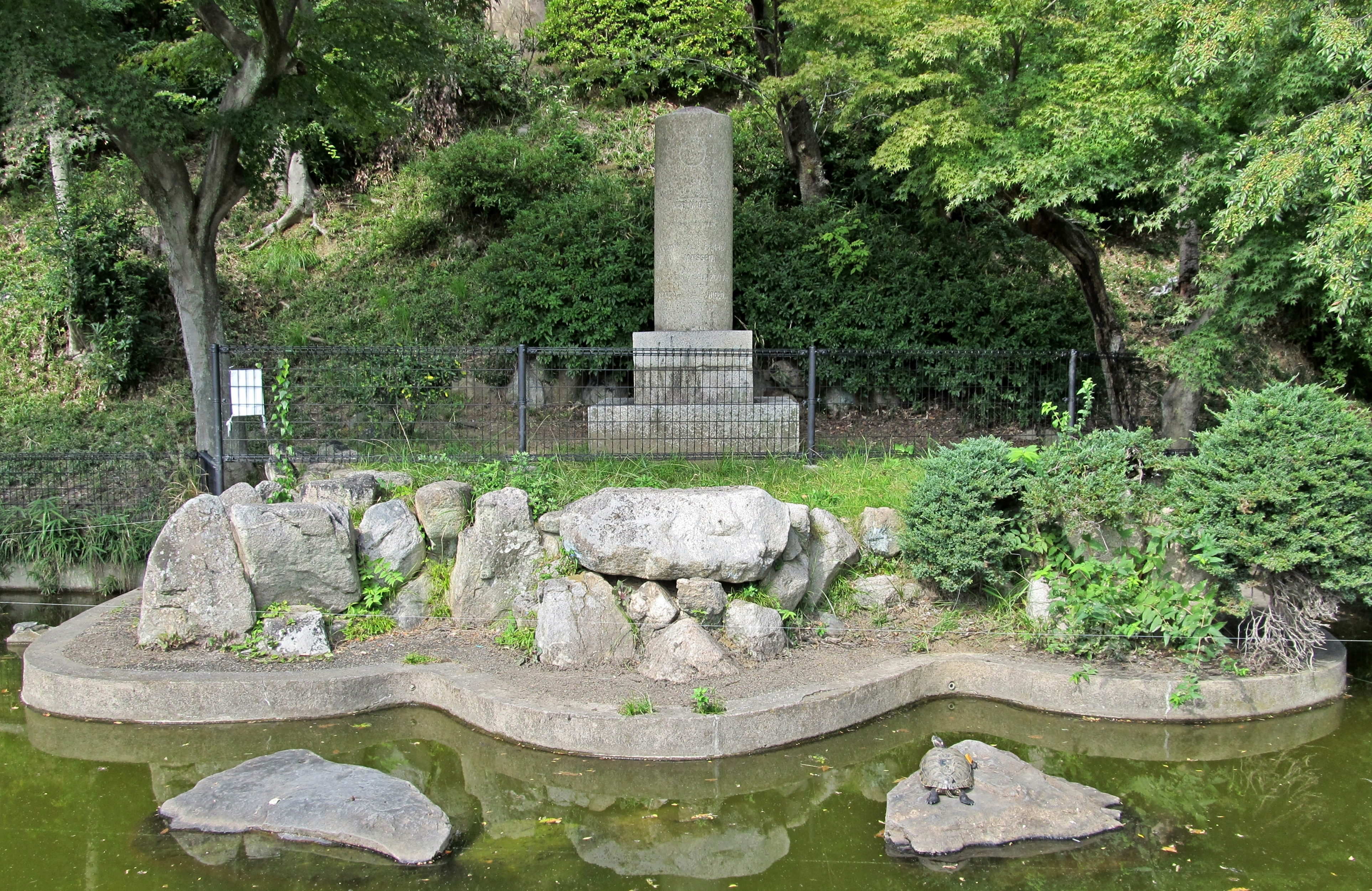 Kinseidai (Chūō-ku,Kobe,Hyogo,Japan).The monumemt was built arond 1874.